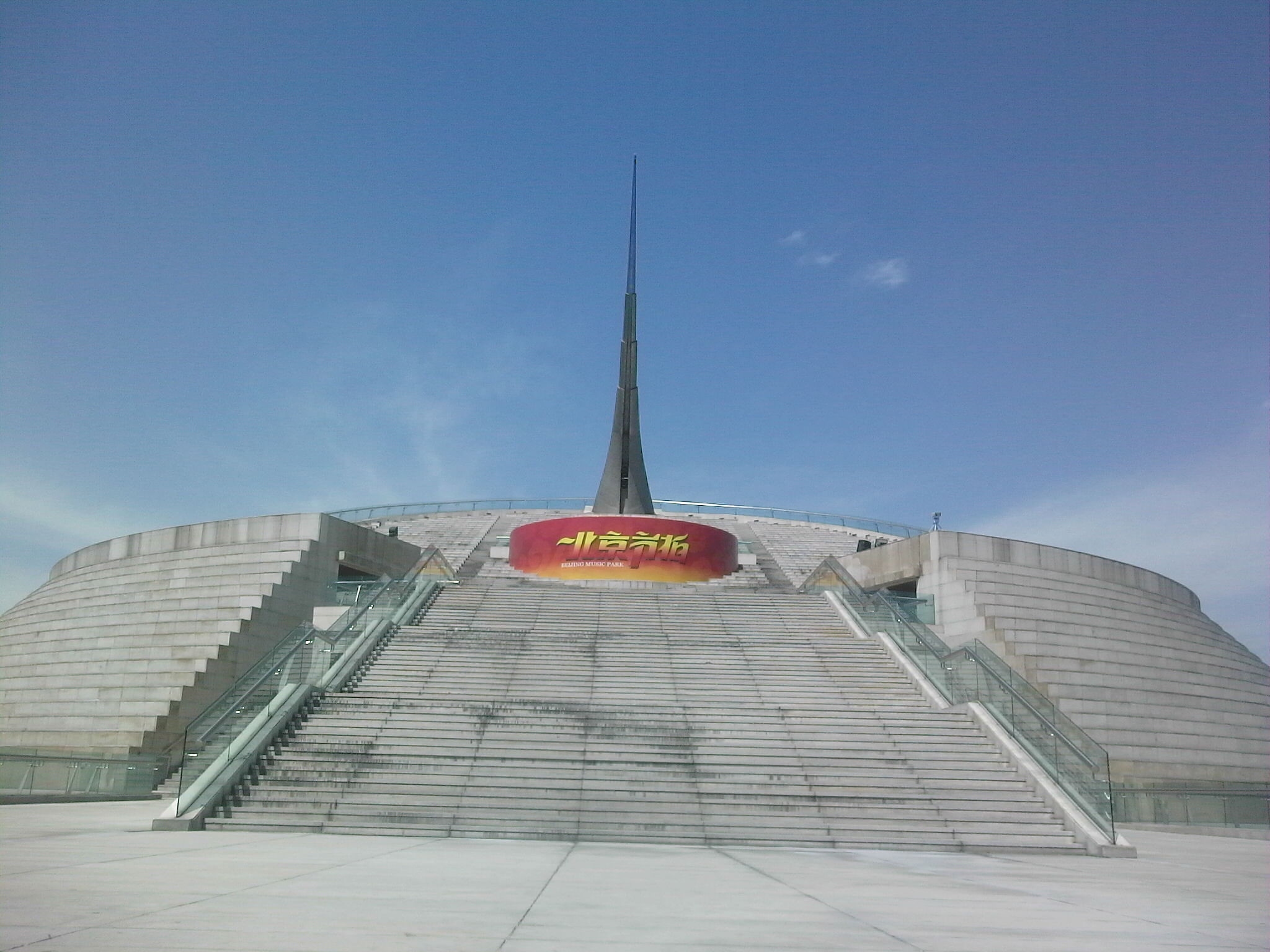 China Millennium Monument main architecture